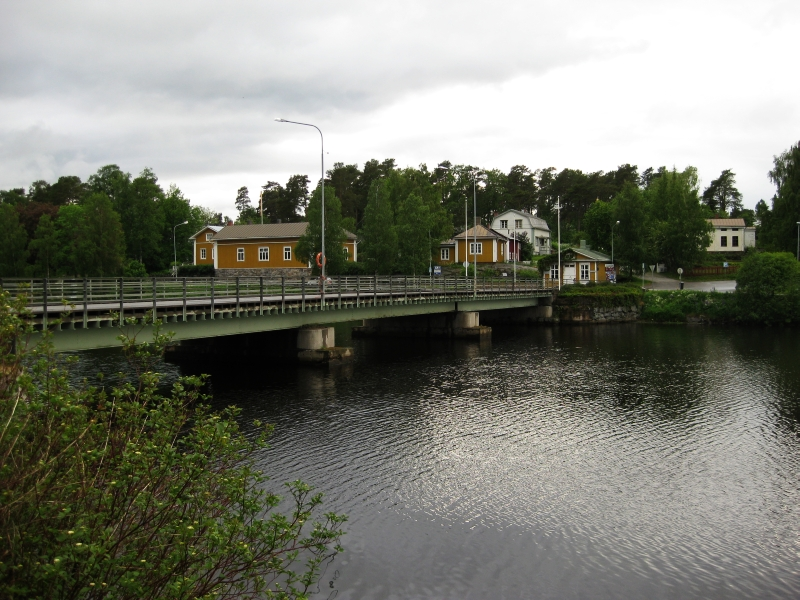 The Old Bridge in Nykarleby, Western Finland.